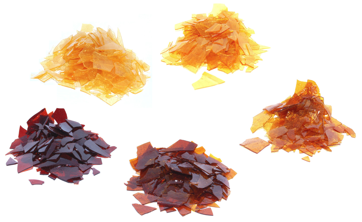 Some different varieties of shellac flakes, for the shellac article.